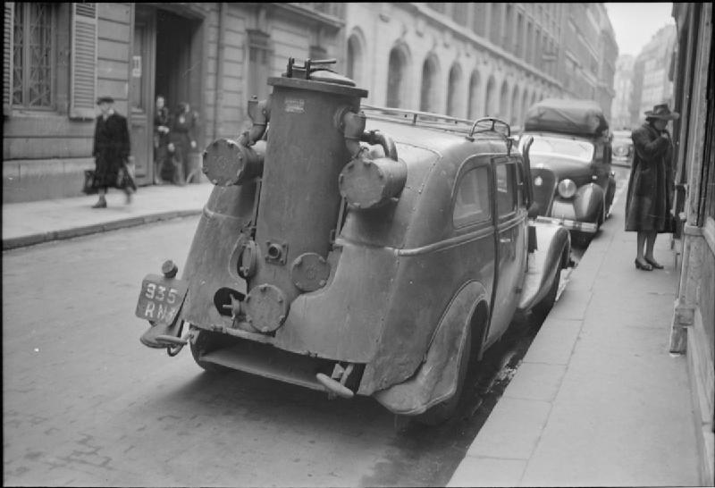 Parisian Traffic, Spring 1945- Everyday Life in Paris, France, 1945 A general view of a Paris street, showing two cars which have been converted to run on fuel other than petrol. The vehicle nearest the camera has a large cylindrical tank built into the rear of the car. In the background, the second car has a large 'bag' on the roof of the car, and is probably gas-powered. Several pedestrians can also be seen, going about their daily business.